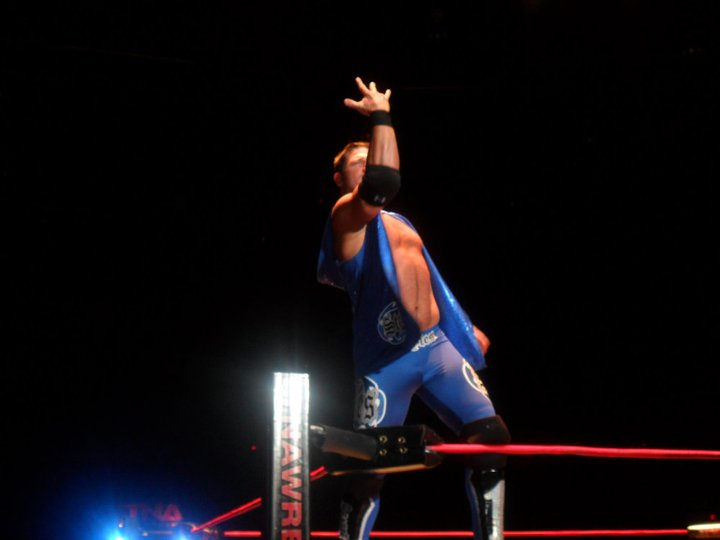 This is a picture I took at a TNA Impact Wrestling Live event in Toronto, Canada.